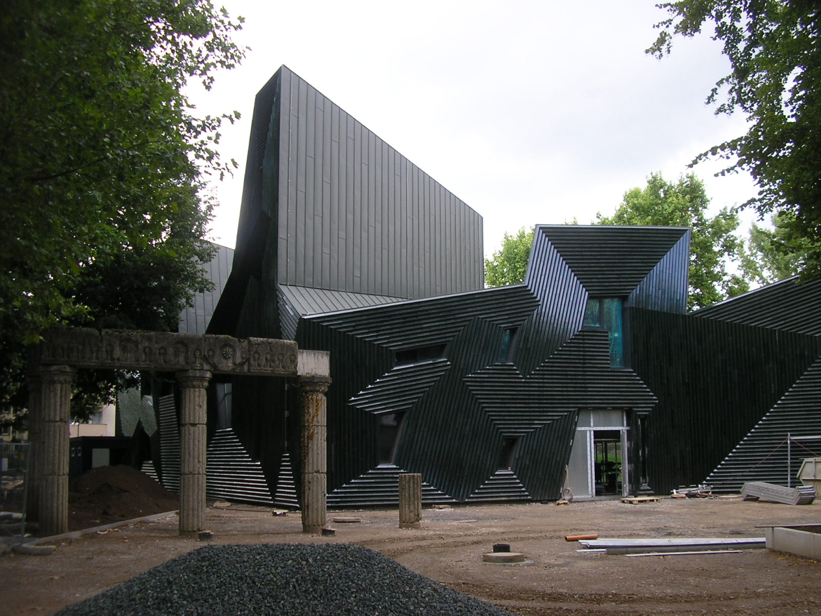 The new Synagogue of Mainz, one month before the opening. In front of the building, one can see columns of the old Synagogue, which was destroyed during the Kristallnacht 1938.